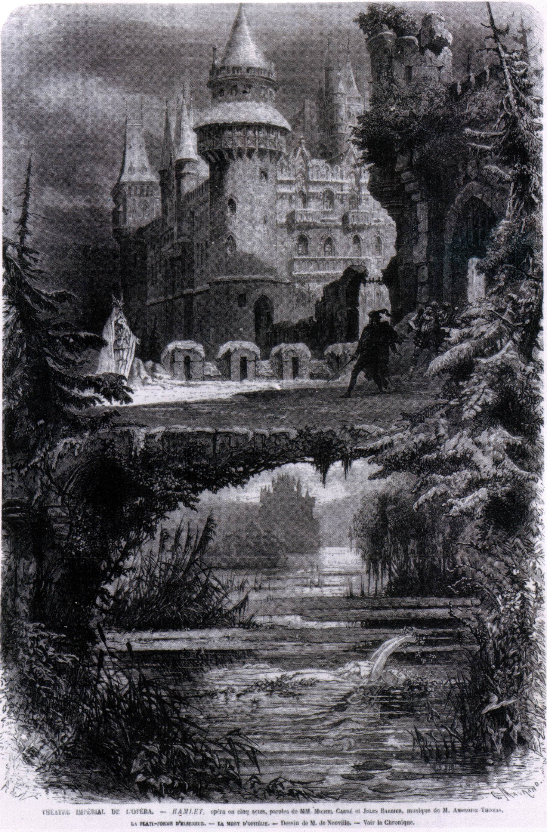 Drawing by C. Maurand, "Scenes from Hamlet" in Opera, Kompositörer, Verk och Uttolkare edited by András Batta och Sigrid Neef.